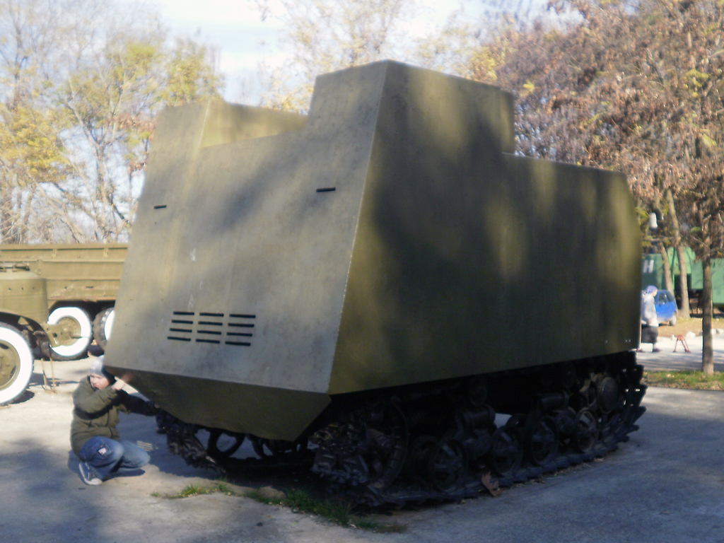 411 battery